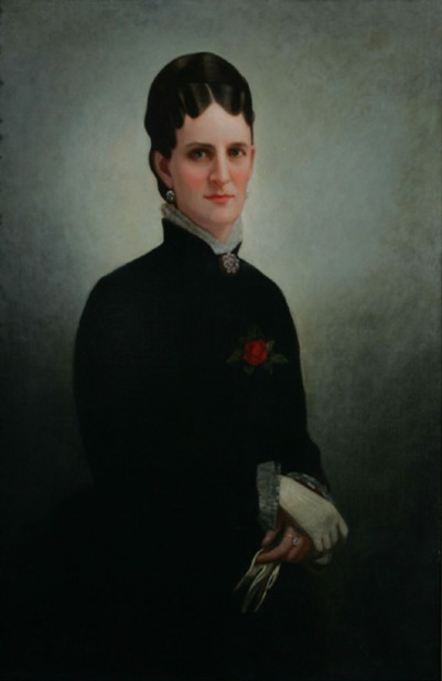 Frank Armstrong Crawford Vanderbilt (1839-1885), second wife of commodore Cornelius Vanderbilt